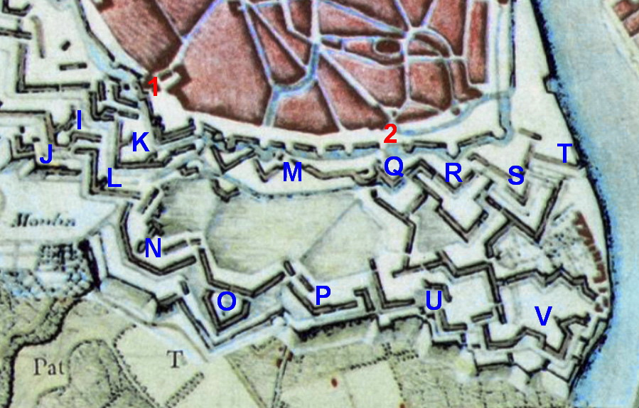 Detail of Tranchot map of 1803-1820 with the southern edge of the town of Maastricht and the fortifications outside the city wall. Letters and numbers added by kleon3.